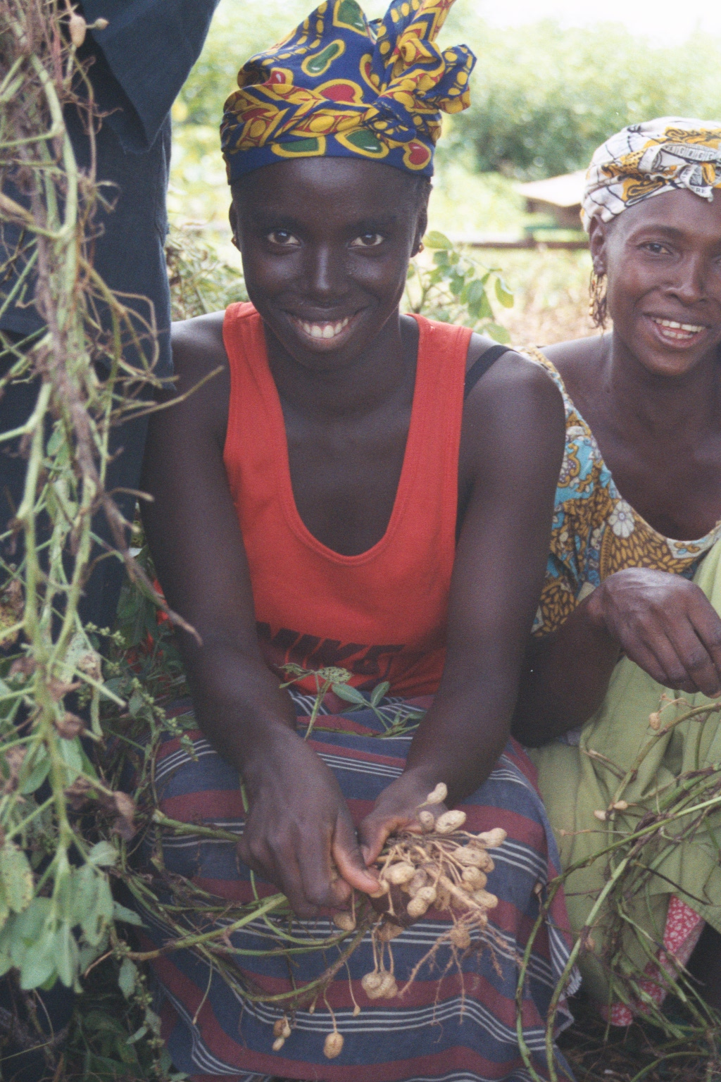 Girl holding freshly harvested groundnuts This is an image of "African people at work" from Gambia